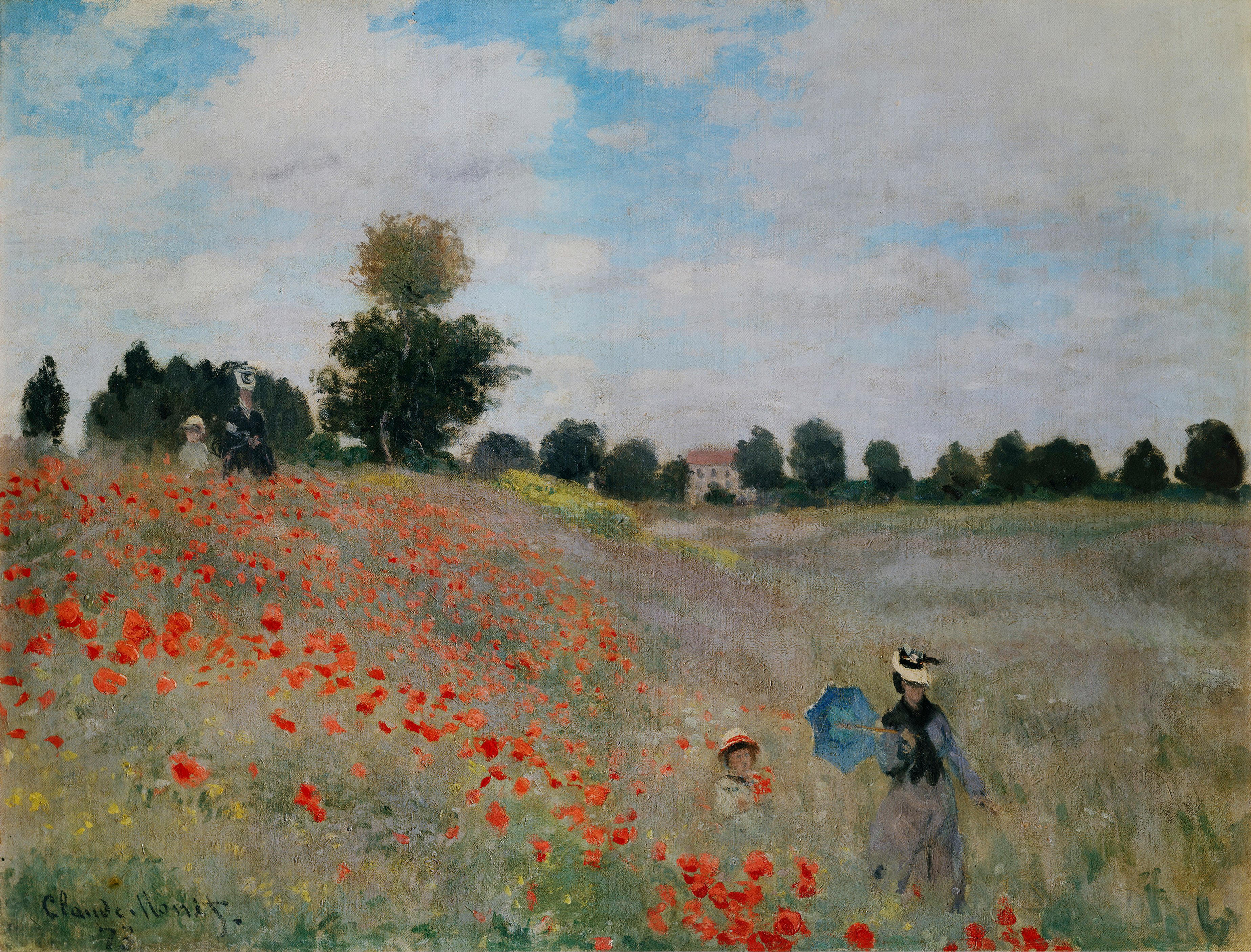 Red Poppy-field at Argenteuil.